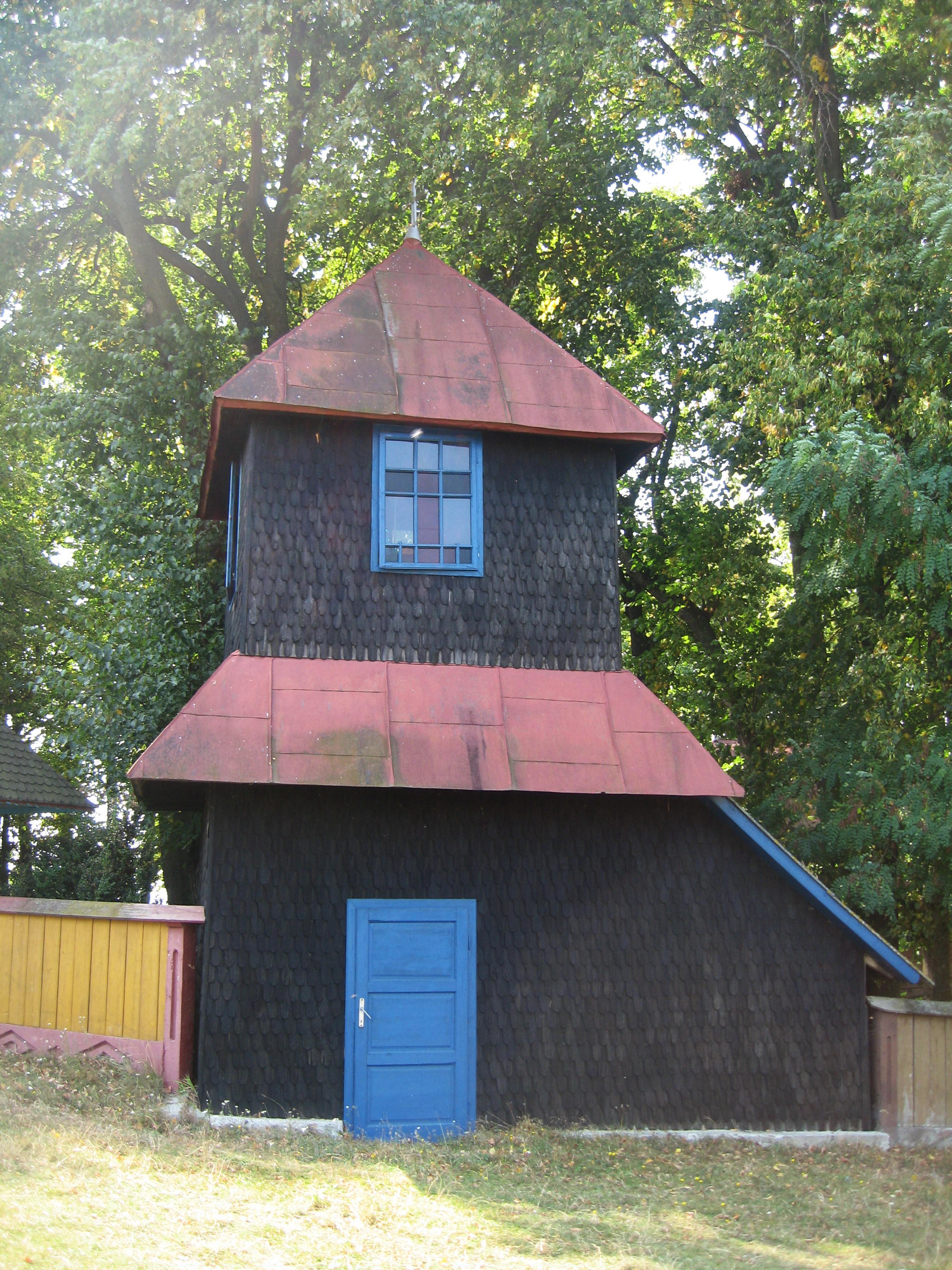 Biserica de lemn din Mitocaşi